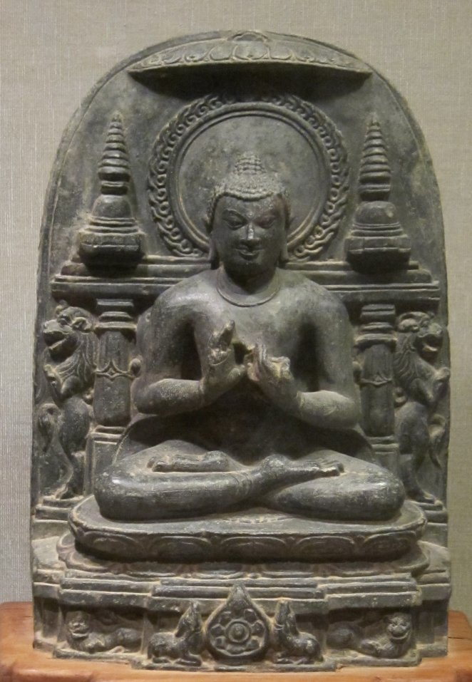 Buddha’s First Sermon, chlorite statue from India, Pala dynasty, 11th century, Honolulu Academy of Arts